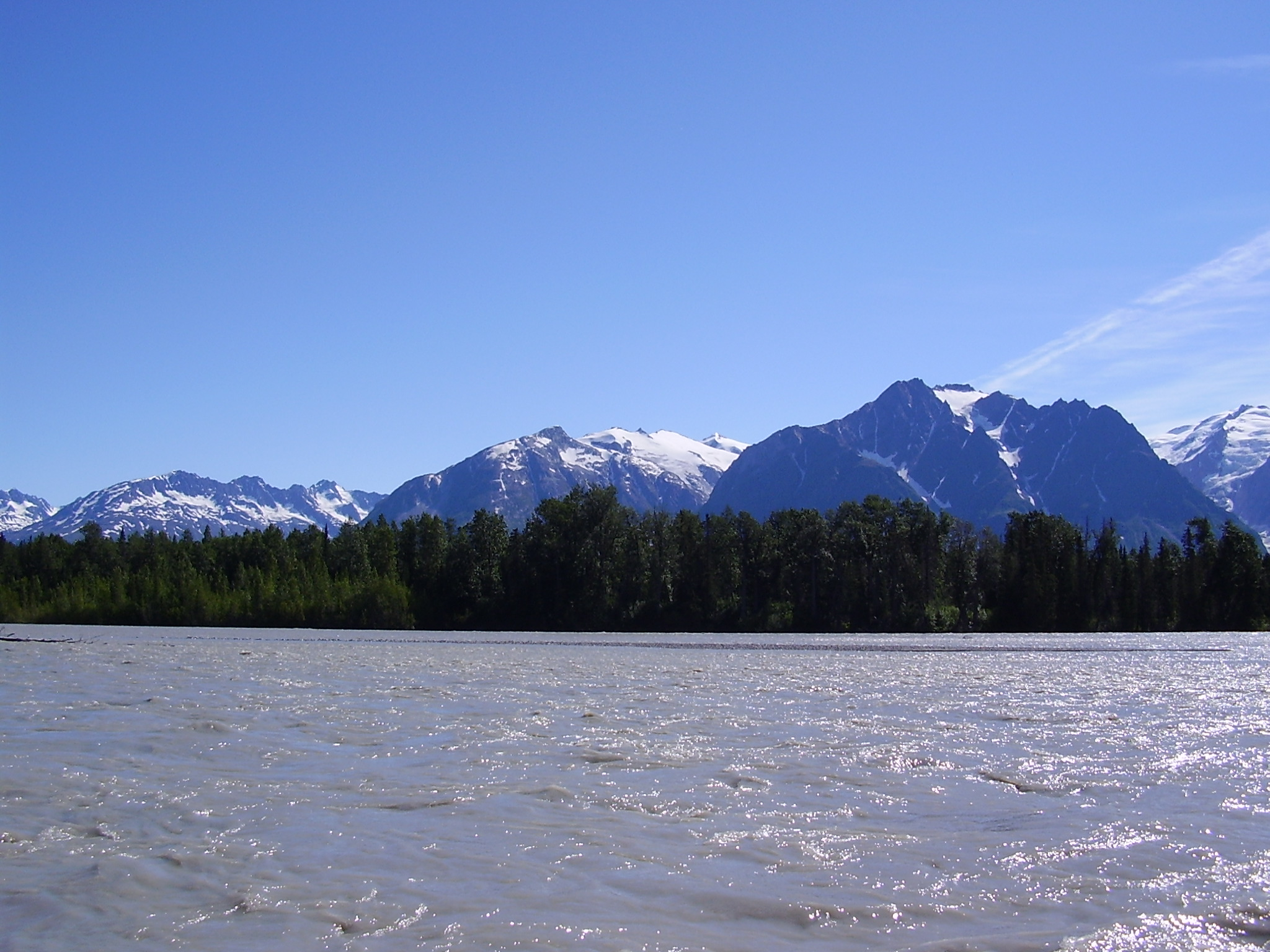 Landscape photo of the confluence area of the Alsek and Tatshenshini rivers with mountains in the background.